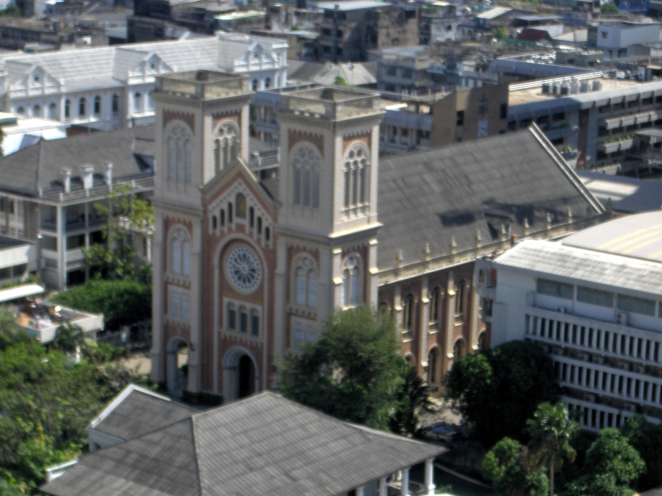 Christian Church in Bangkok